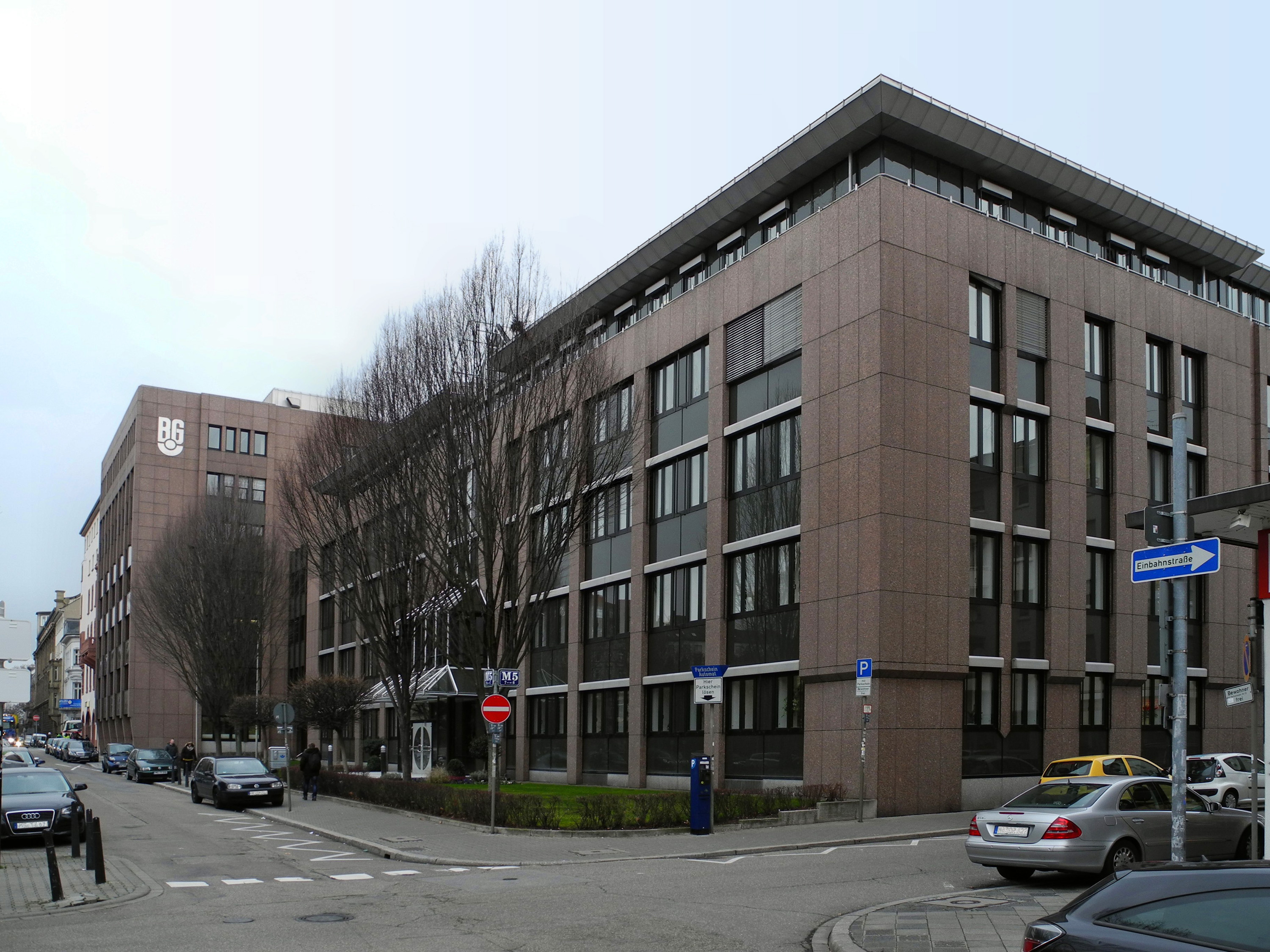 Berufsgenossenschaft Handel und Warendistribution, BGHW, Mannheim, Germany